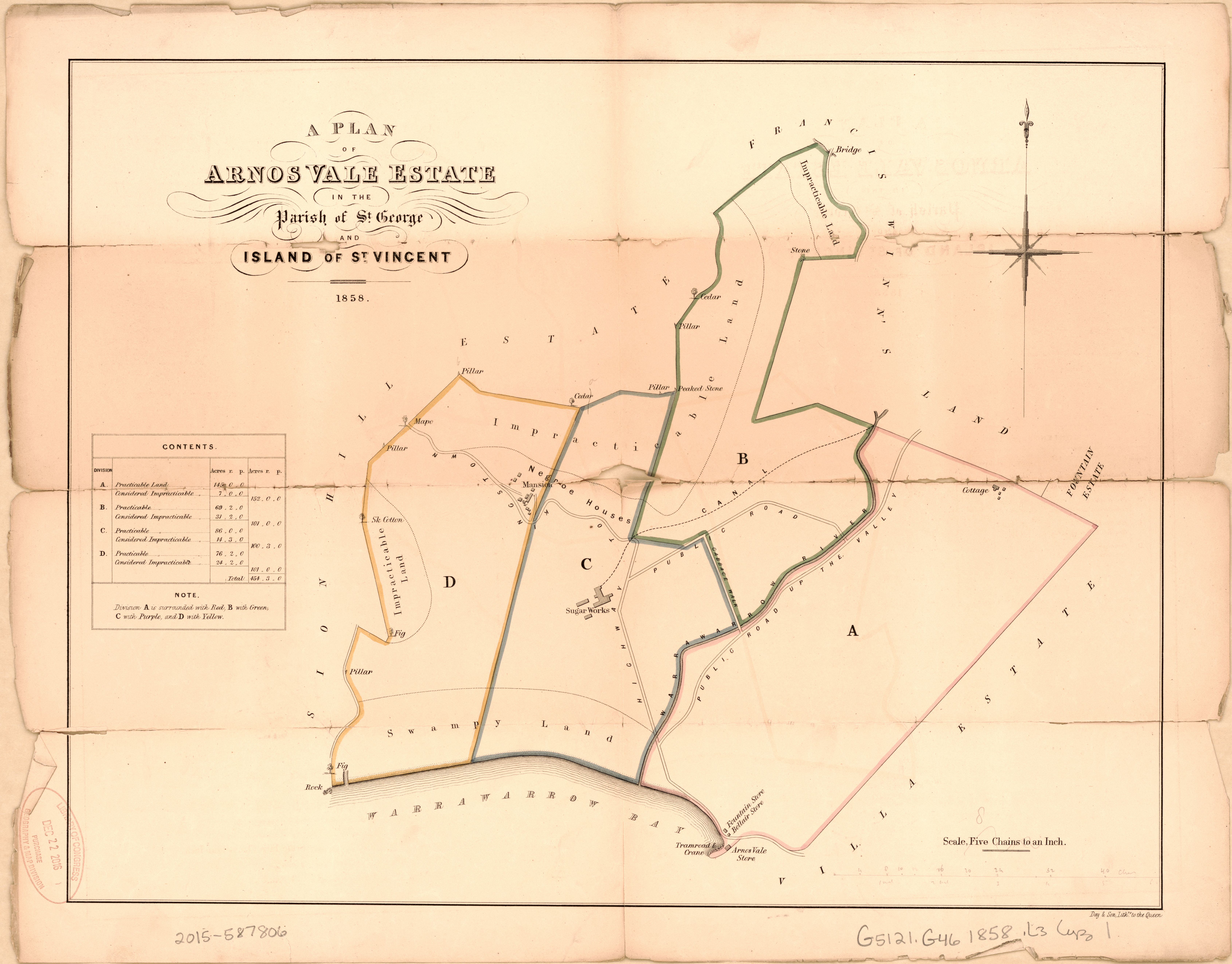 Title from accompanying text. "In the matter of the Estate of William Samuel Greatheed, owner, Ex parte Sophia Burgess, petitioner." "Sale on Monday, November 1, 1858." Accompanied by text: In the Court of the Commissioners for Sale of Incumbered Estates in the West Indies, Saint Vincent. ([4] unnumbered pages : cadastral data, annotations ; 44 cm, folded to 28 x 12 cm). "At the Court of the said Commissioners, No. 8, Park Street, westminister, on Monday, the 1st day of November next, at twelve o'clock at Noon precisely. The purchaser will have an indefeasible Parliamentary Title under the Seal of the Court." "All further particulars to be had by application to the Commissioners, at their Court, No. 8, Park Street, Westminister, S.W.; to Mr. Charles Lever, the Solicitor having carrige of the Sale, No. 1, Frederick's Place, Old Jewry, London, E,C,; to Mr. Leifchild, the Auctioneer, No. 62, Moorgate Street, City, London, E.C. (all in England); or to John McFee, Esq., Arnos Vale, St. Vincent. Copy imperfect: Discoloration, strongly use-worn, very fragile, torn in half with some small holes along fold lines. Available also through the Library of Congress Web site as a raster image.